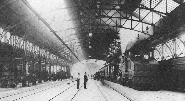 Inside the trainshed at Mount Royal Station in Baltimore, Maryland (U.S.), in the year it opened (1896). Mount Royal Station served the Royal Blue Line of the Baltimore and Ohio Railroad, the first electrified steam railroad. In this picture, a B&O electric locomotive is ready to depart northbound.